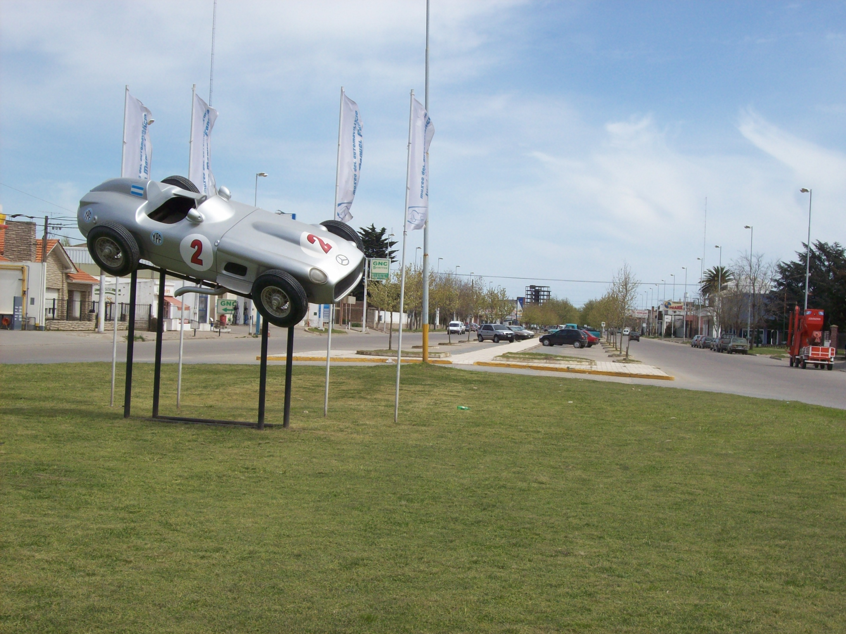 Provincial Route 55 in Balcarce city, Buenos Aires Province, Argentina.